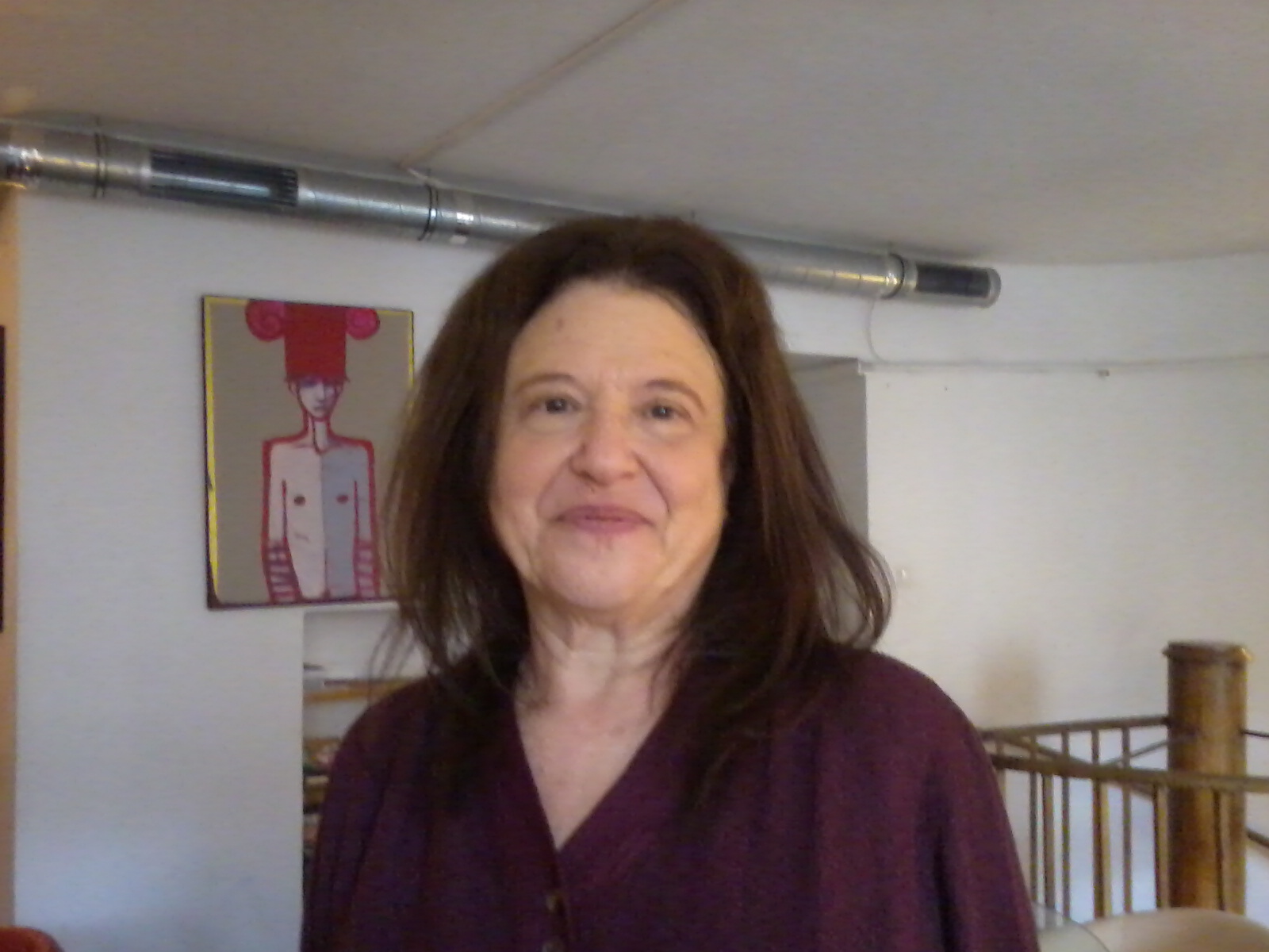 Ann Snitow, feminist scholar, professor at the New School for Social Research.